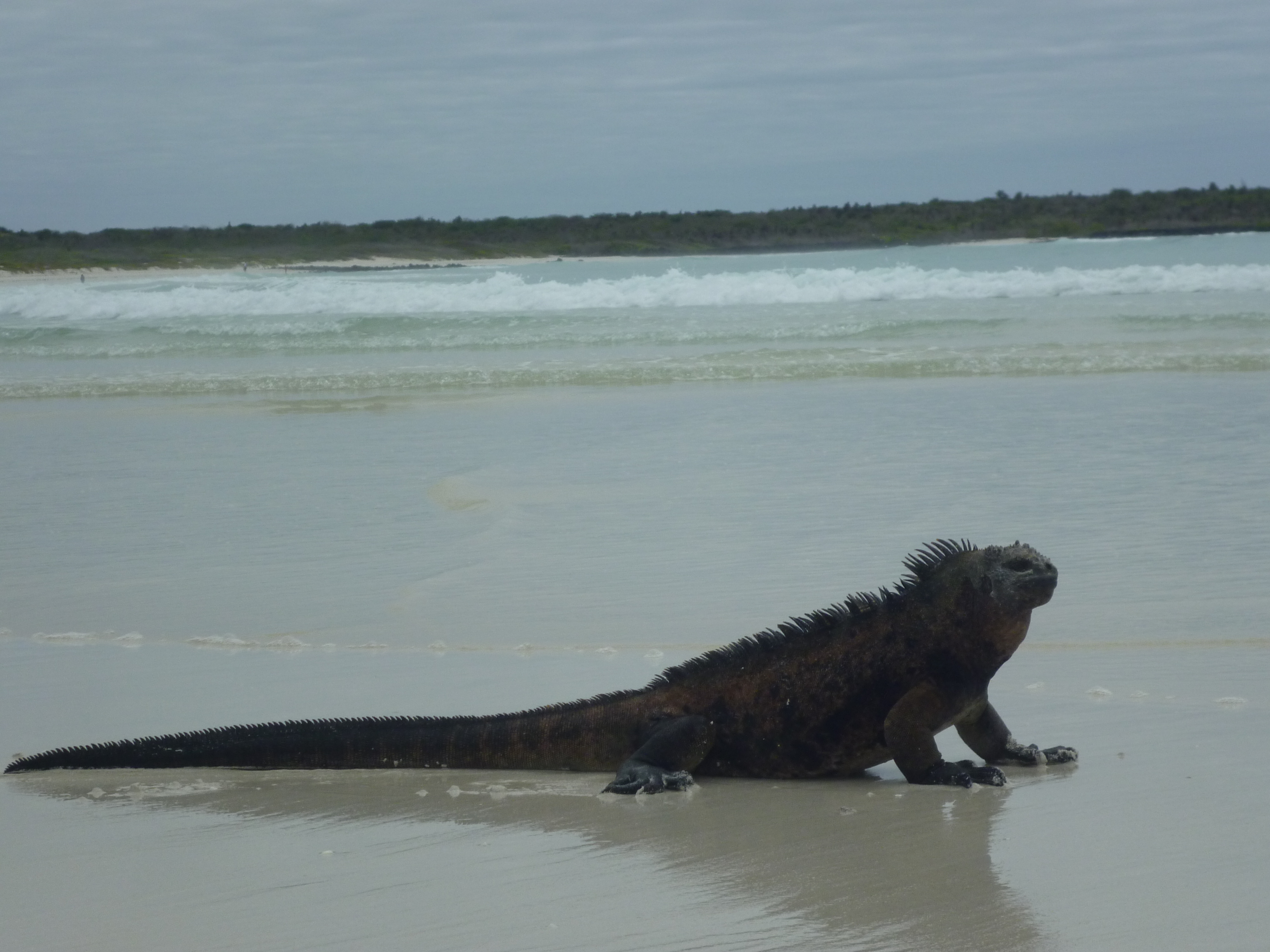 Tortuga Bay Galapagos Iguana on the beach Island of Santa Cruz photo by Alvaro Sevilla Design